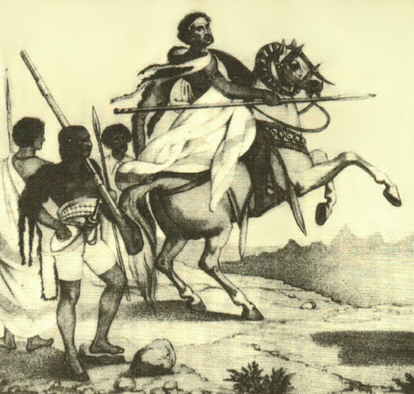 Ethiopian warriors as according to James Bruce, who travelled along the Blue Nile from 1768-1773. Image obtained from "Zu den Quellen des Blauen Nils", which is a shortened and German version of Bruce' original.